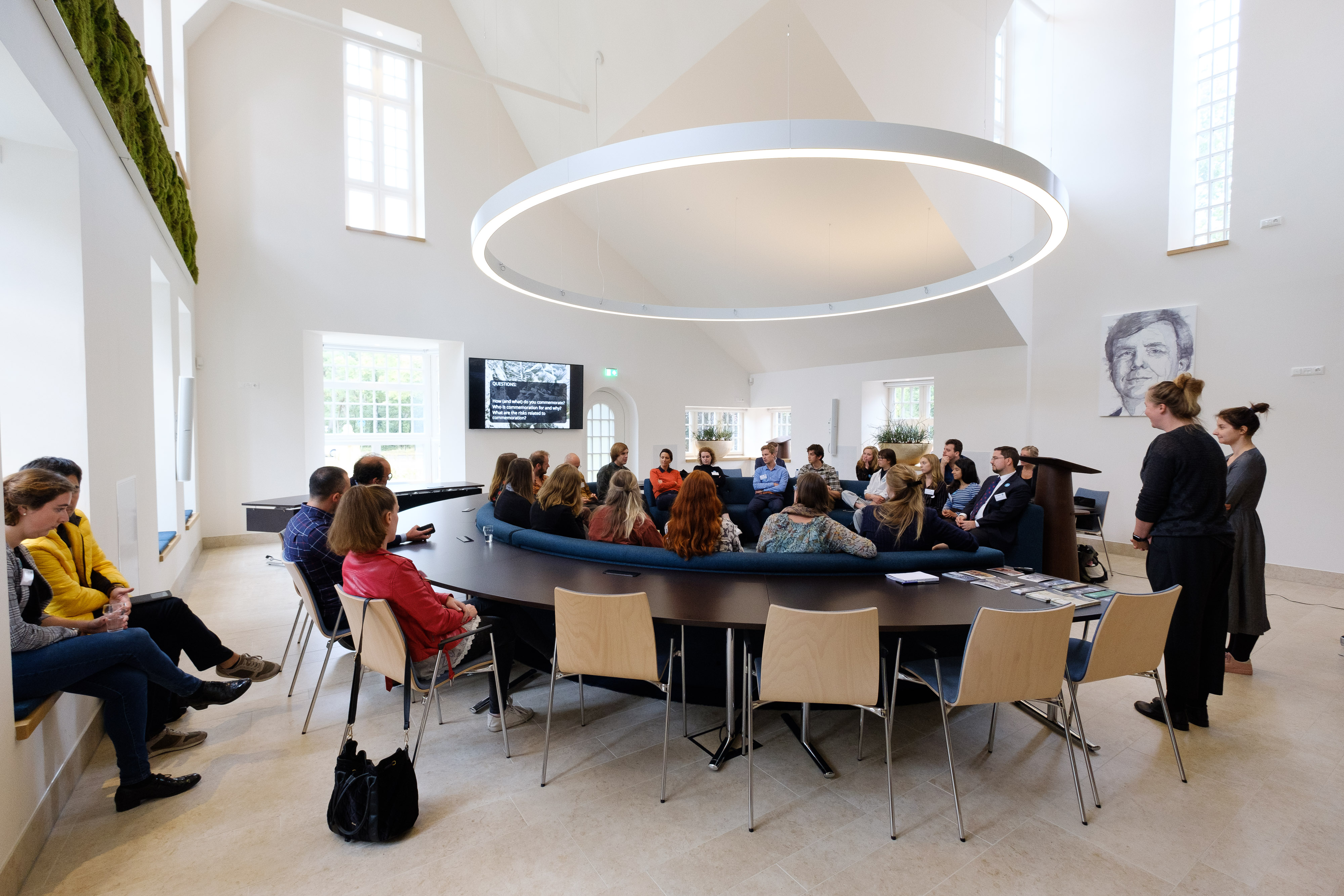 Past:Forward was an international conference about commemoration and remembrance, and marked the start of the celebration of 75 years of freedom in Brabant. This particular year is considered as a turning point: the established ways of commemorating and celebrating were weighed, but possible new approaches were discussed to build new future forms of commemoration after 2019. The provincial Commemoration of Brabant’s Fallen in Waalre will be treated as a case study. Together the relationship within a broader European context was investigated. Hereby taking in consideration commemorating and remembering in relation to other conflicts and genocides besides the Second World War. Past:Forward brought together an international, intercultural and intergenerational crowd. The conference was prepared and carried out in close cooperation with a team of Dutch young professionals.